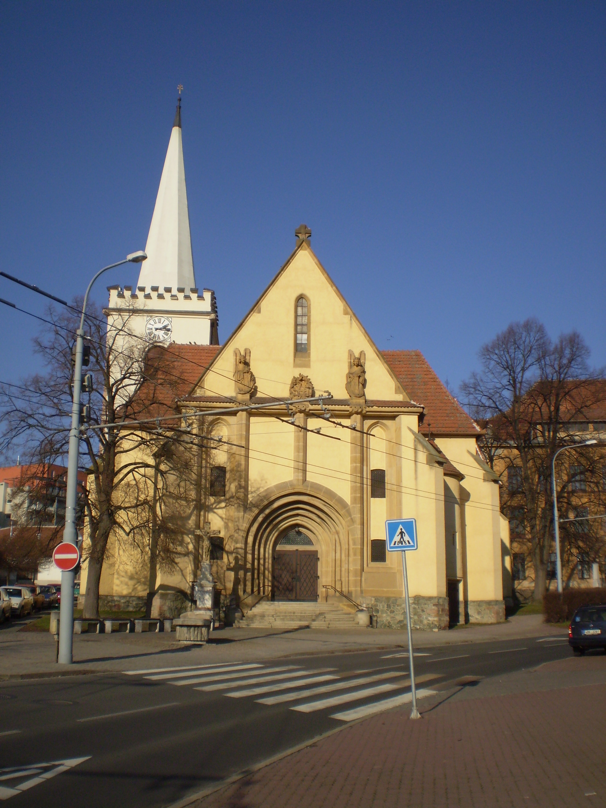 Church of Saint Lawrence in Brno-Komín, South Moravian Region, Czech Republic